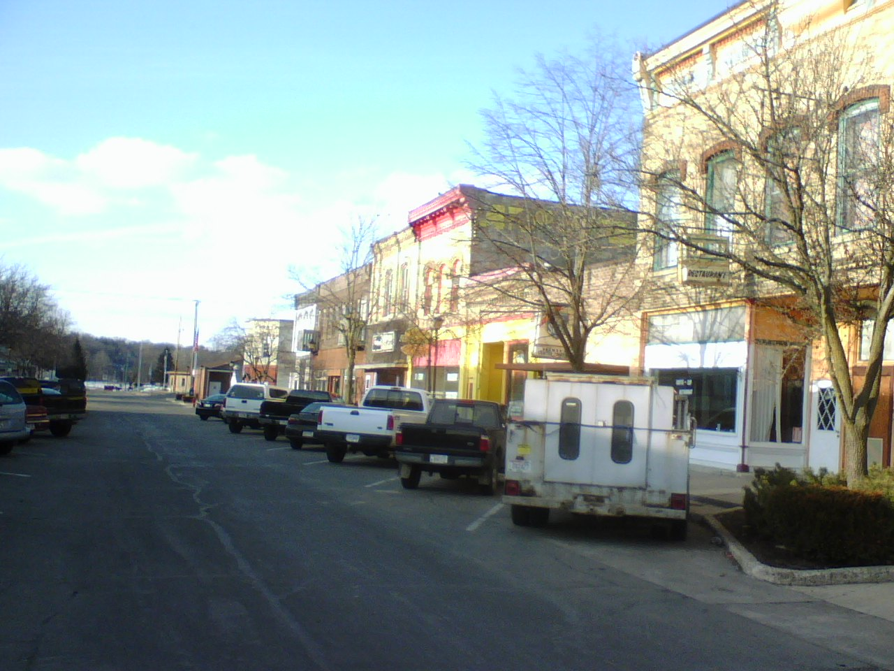 North Water Street in Albany, Wisconsin, USA, looking north from Main Street.